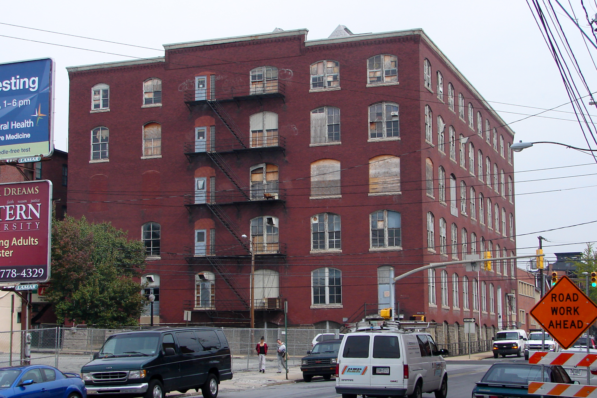 North Prince Street Historic District on the NRHP since August 18, 1989. The historic district is centered on the corner of North Prince Street and West Lemon Street near the Central Business and Stadium Districts of Lancaster, Pennsylvania. Note that the HD is very industrial and doesn't fit everybody's idea of what a historical district should be. The main industry was tobacco warehousing and cigar rolling.